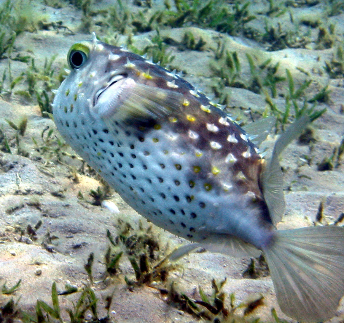 Cyclichthys spilostylus taba egypt colour adjusted in photoshop